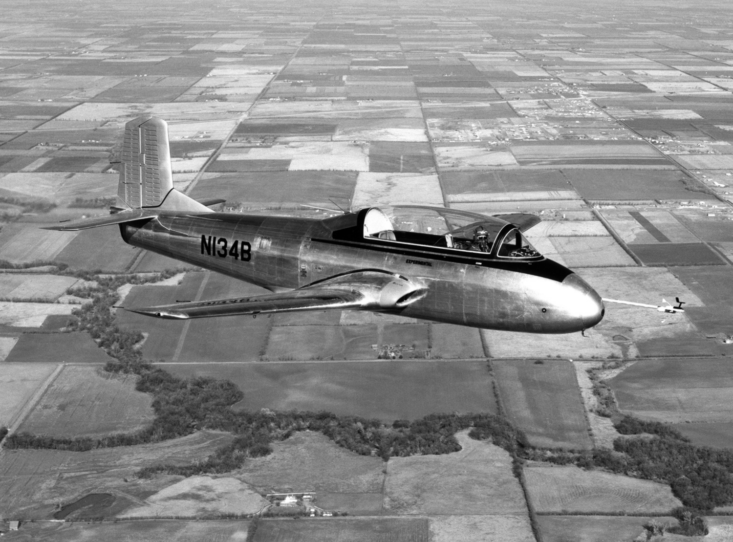 The sole Beechcraft Jet Mentor in flight. In 1955 Beechcraft developed a jet-engined derivative as a private venture in the hope of winning a contract from the US military. The Model 73 Jet Mentor shared many components with the piston-engined T-34 Mentor. The first flight of the Model 73, registered N134B, was on 18 December 1955. The Model 73 was evaluated by the USAF, which ordered the Cessna T-37, and the USN, which decided upon the Temco TT Pinto. The Model 73 was not put into production. The sole protoype is today on display at the Kansas Aviation Museum.